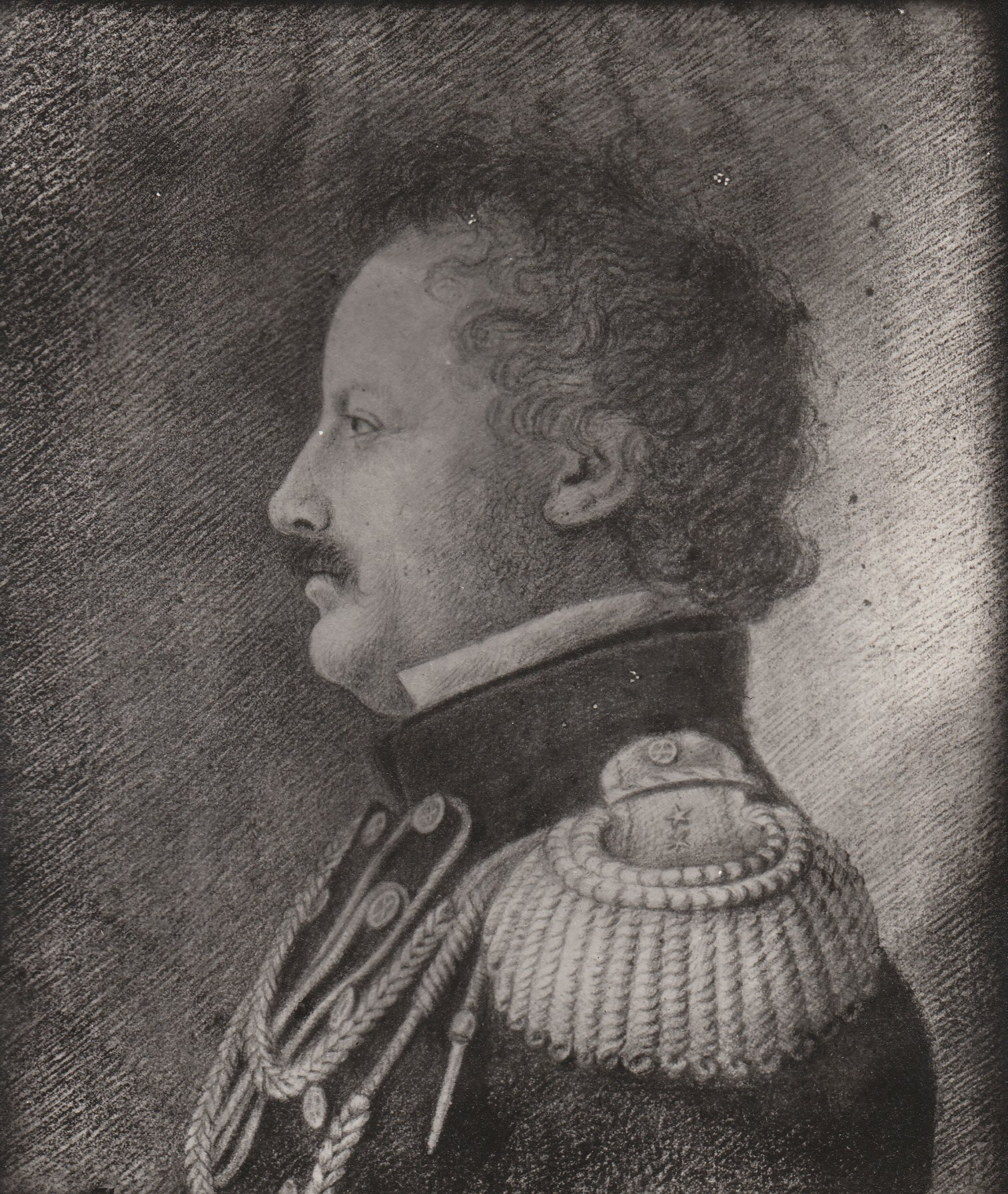 Drawing of Lorentz Diderik Klüwer by Johannes Finne Rosenvinge. Photographed by Erik Olsen in 1897 in connection with the exhibition Trondhjems 900-årsjubileum.(?)